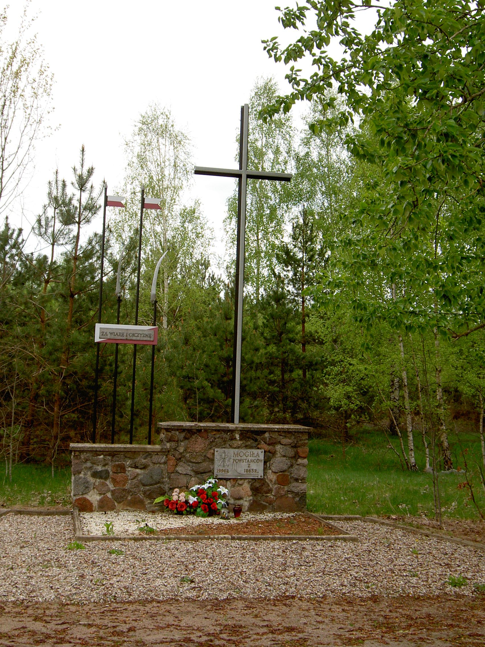 Grave of January Uprising rebels located by Strabla-Mulawicze road (Podlaskie, Poland).